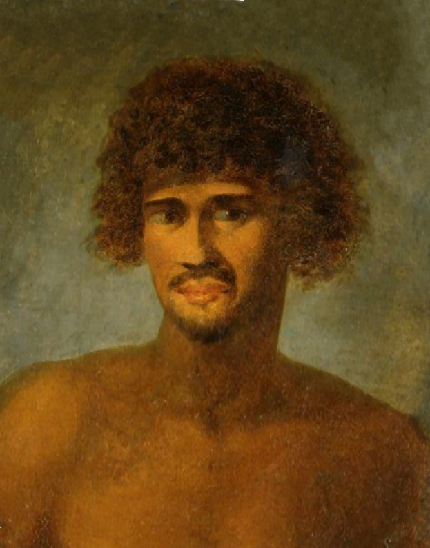 Head and shoulders portrait of a young Tahitian male.